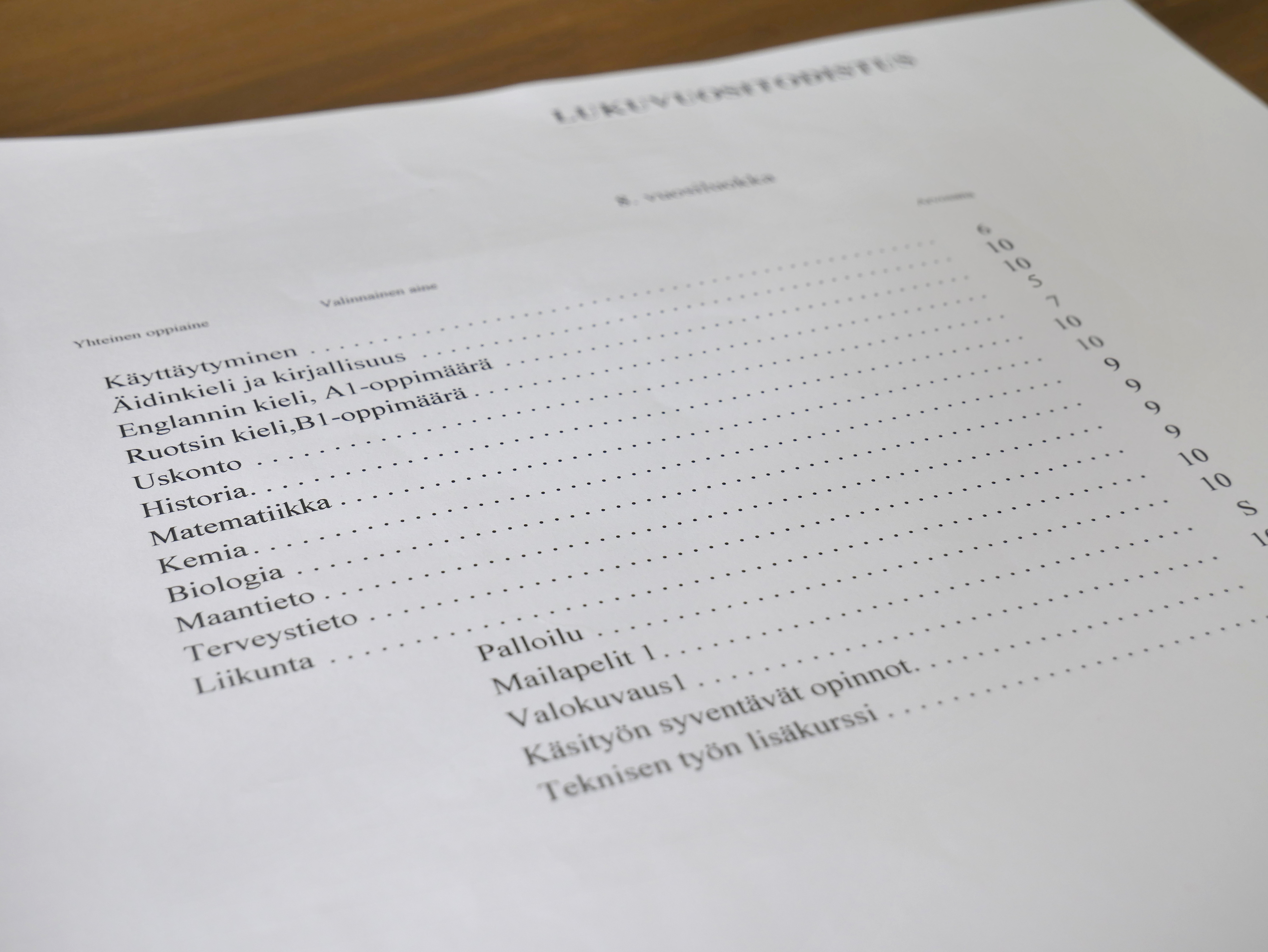 Example of finnish student school year report.